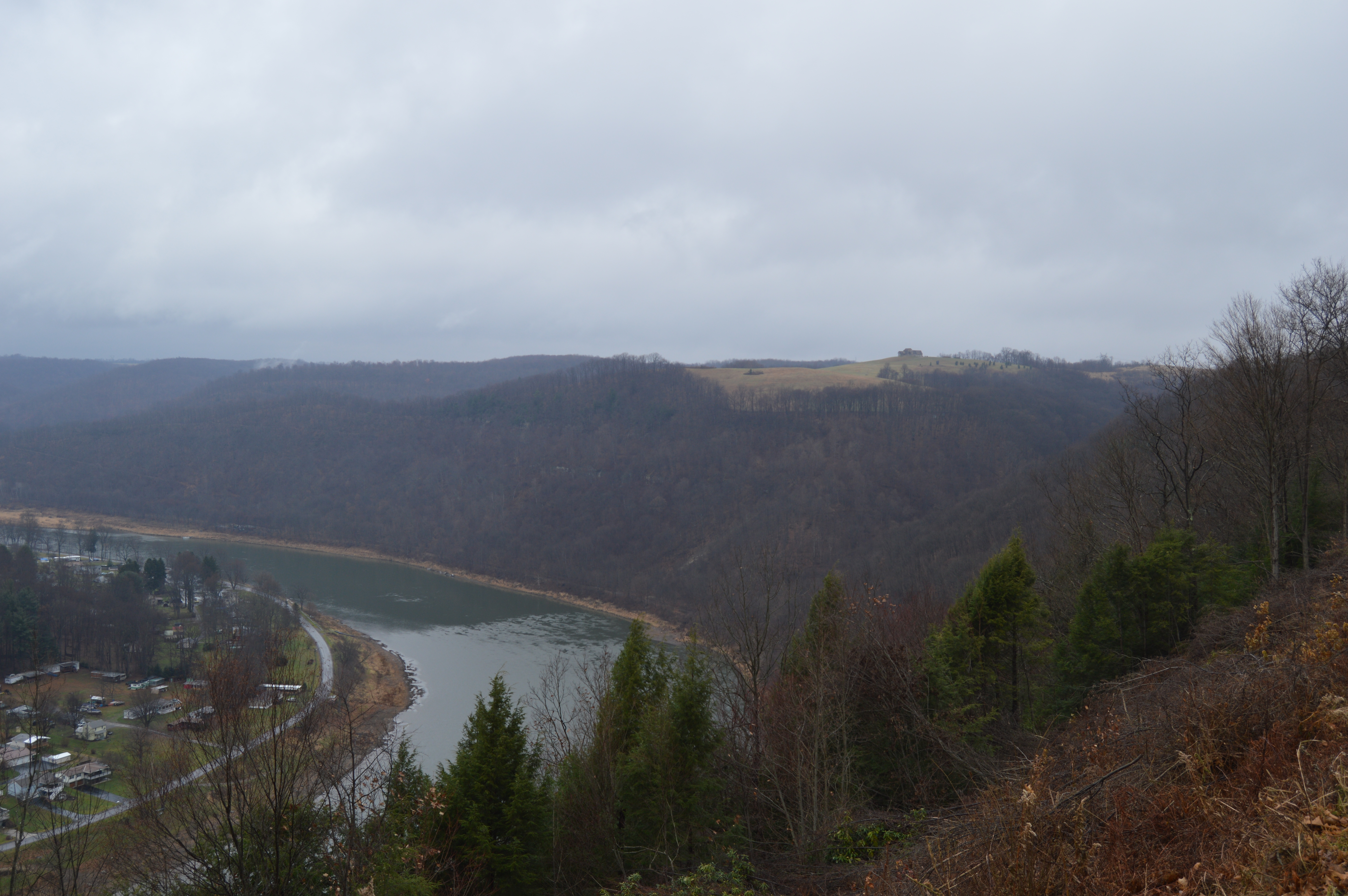 Looking northeast from the Bradys Bend overlook, located along Pennsylvania Route 68 just east of East Brady, Pennsylvania, United States. The hills in the distance are part of Madison Township in Clarion County, sloping down to the Allegheny River, although the photo itself is taken in Brady Township. On the other side is a small portion of Bradys Bend Township in Armstrong County.